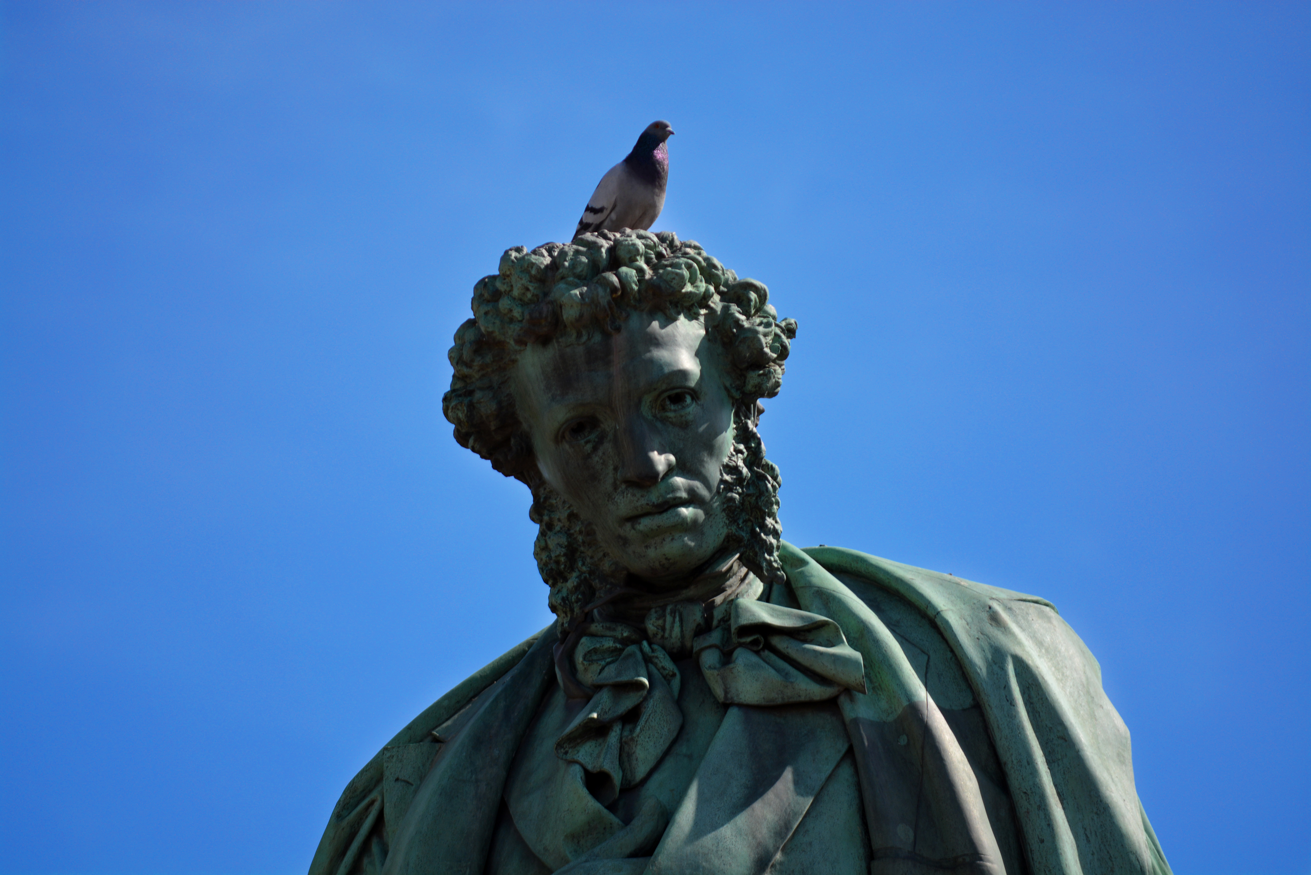 Detail of the Pushkin sculpture at Pushkinskaya Square, Moscow.